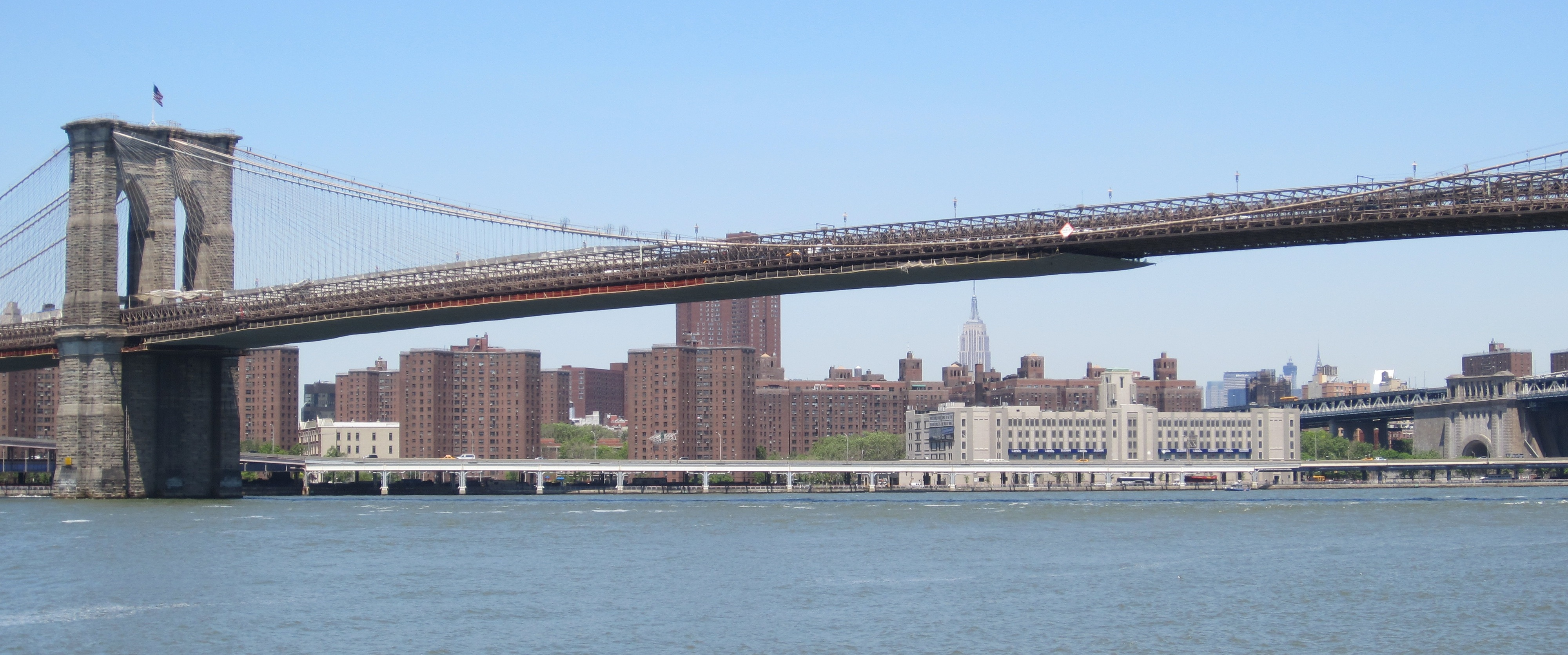 Brooklyn, New York City (2014)